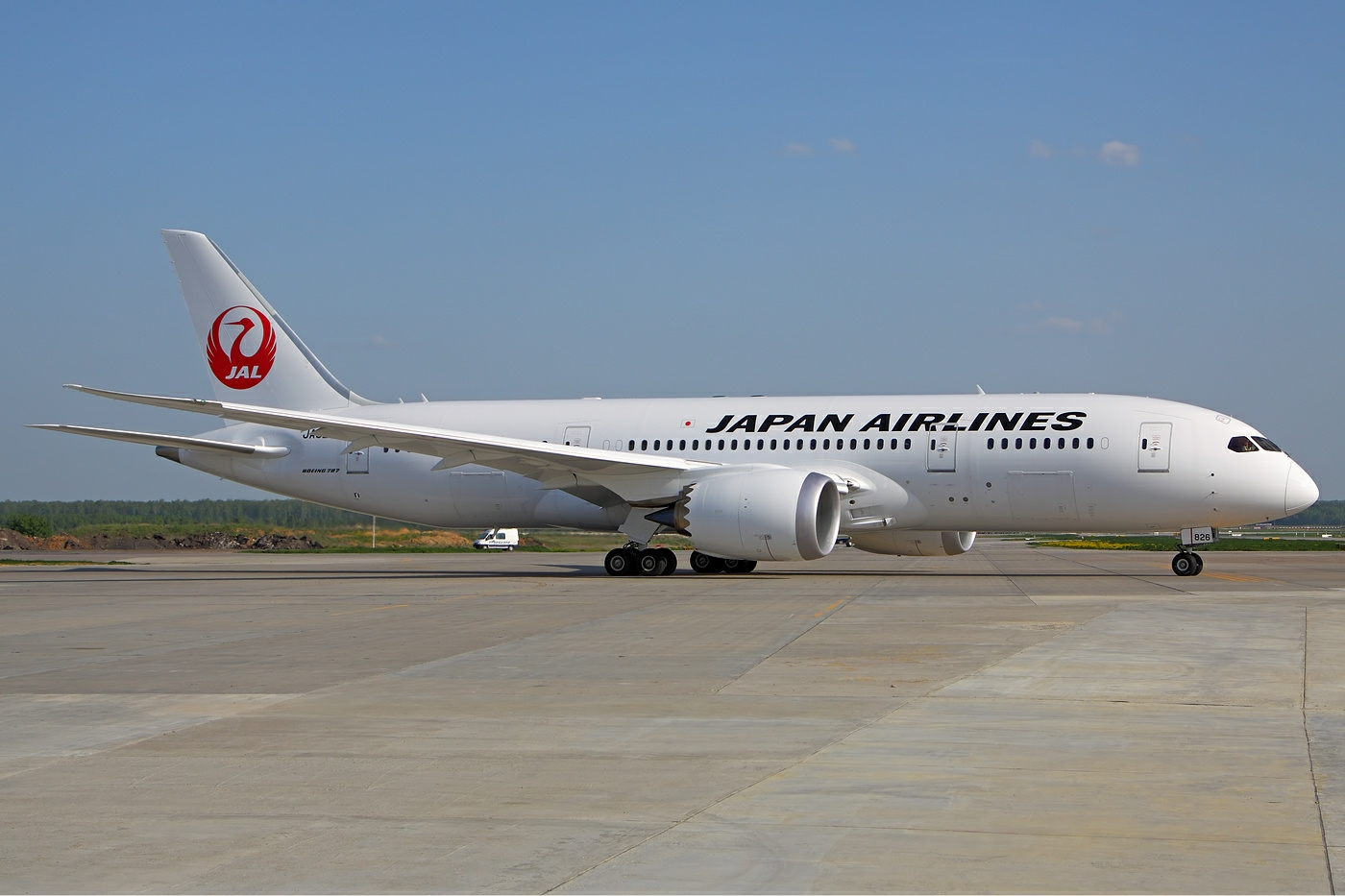 Japan Airlines Boeing 787-846